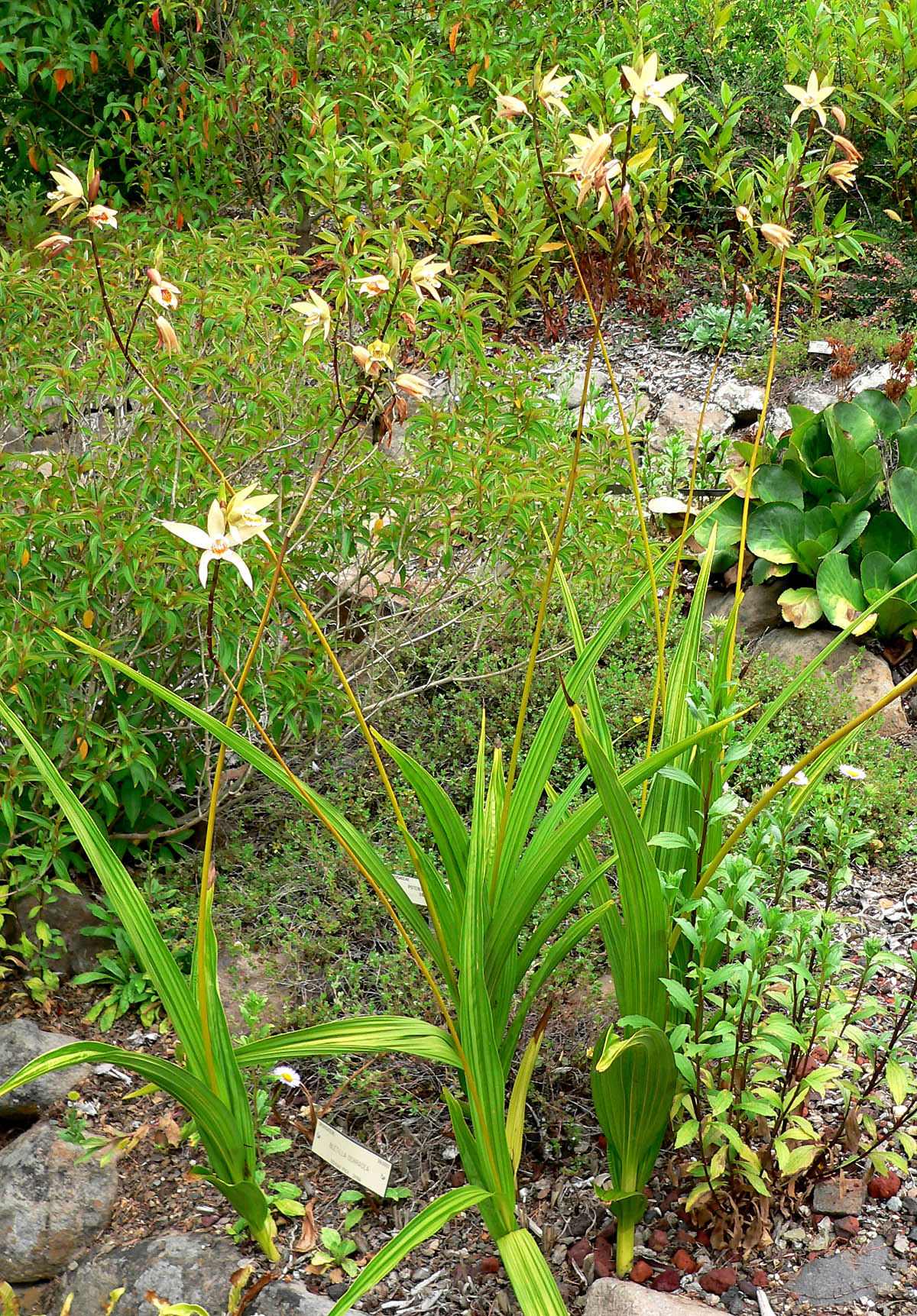 Photo of Bletilla ochracea at the University of California Botanical Garden